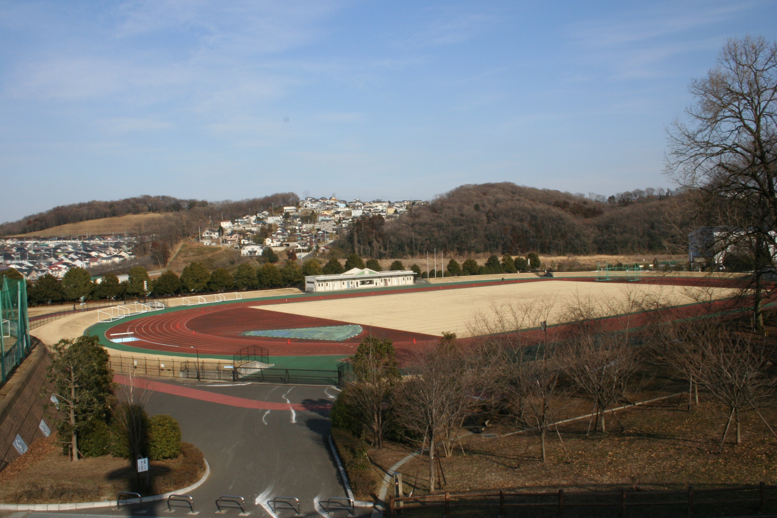 Iwahana ground for track and field sports, Higashimatsuyama-shi, Saitama, Japan